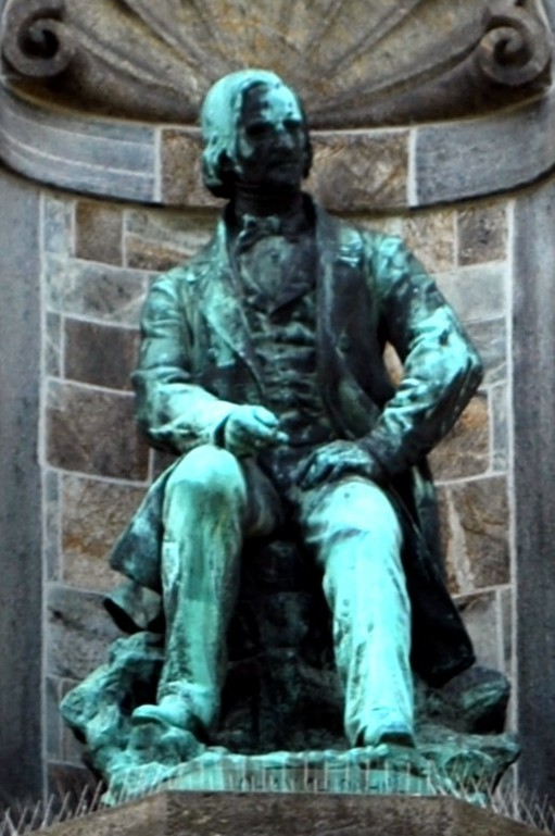 I C Dahl, Norwegian painter, by Ambrosia Tønnesen. Facade of «Permanenten», The West Norway Museum of Decorative Art, Bergen, Norway.